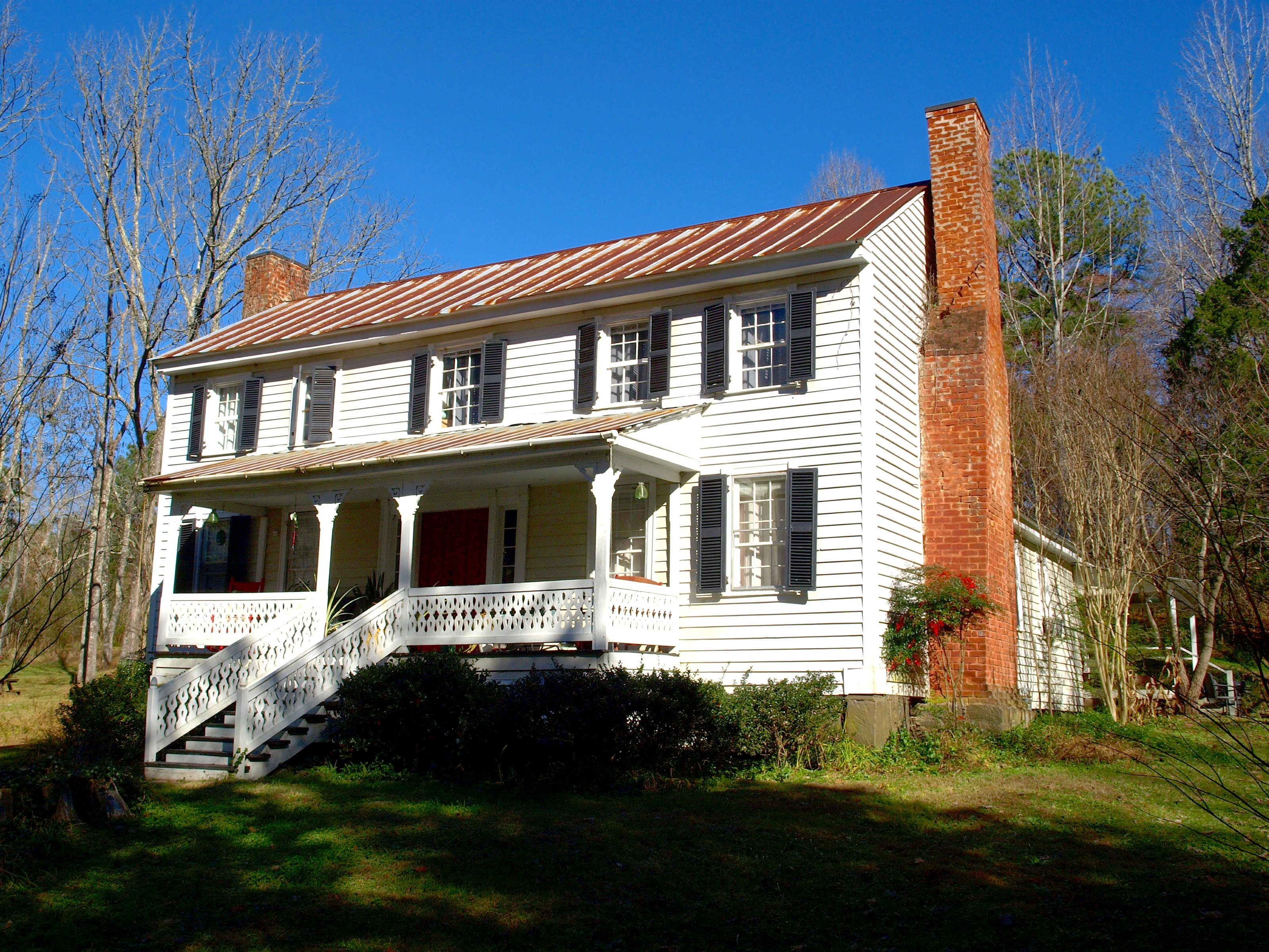 The Vance C. Larmore House near Hammondville, Alabama, listed on the National Register of Historic Places